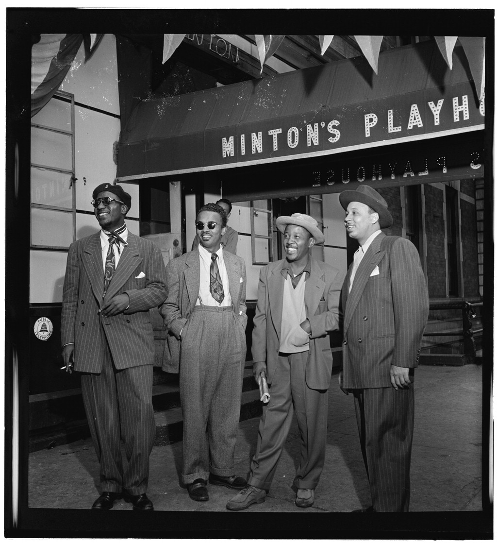 Gottlieb, William P., 1917-, photographer. [Portrait of Thelonious Monk, Howard McGhee, Roy Eldridge, and Teddy Hill, Minton's Playhouse, New York, N.Y., ca. Sept. 1947] 1 negative : b&w ; 2 1/4 x 2 1/4 in. Caption from Down Beat: In front of Minton's (left to right) Thelonius Monk, Howard McGhee, Roy Eldridge and Teddy Hill. Notes: Gottlieb Collection Assignment No. 231 Reference print available in Music Division, Library of Congress. Purchase William P. Gottlieb Forms part of: William P. Gottlieb Collection (Library of Congress). In: "Thelonius Monk--genius of bop," Down Beat, v. 14, no. 20 (Sept. 24, 1947), p. 2. Subjects: Monk, Thelonious McGhee, Howard, 1918- Eldridge, Roy, 1911- Hill, Teddy, 1909-1978 Jazz musicians--1940-1950. Pianists--1940-1950. Composers--1940-1950. Trumpet players--1940-1950. Saxophonists--1940-1950. Minton's Playhouse Format: Portrait photographs--1940-1950. Group portraits--1940-1950. Film negatives--1940-1950. Rights Info: Mr. Gottlieb has dedicated these works to the public domain, but rights of privacy and publicity may apply. Repository: (negative) Library of Congress, Prints & Photographs Division, Washington D.C. 20540 USA, (reference print) Library of Congress, Music Division, Washington D.C. 20540 USA, Part Of: William P. Gottlieb Collection (DLC) 99-401005 General information about the Gottlieb Collection is available at Persistent URL: Call Number: LC-GLB23- 0620 This work is from the William P. Gottlieb collection at the Library of Congress. Rights and restrictions.In accordance with the wishes of William Gottlieb, the photographs in this collection entered into the public domain on February 16, 2010.